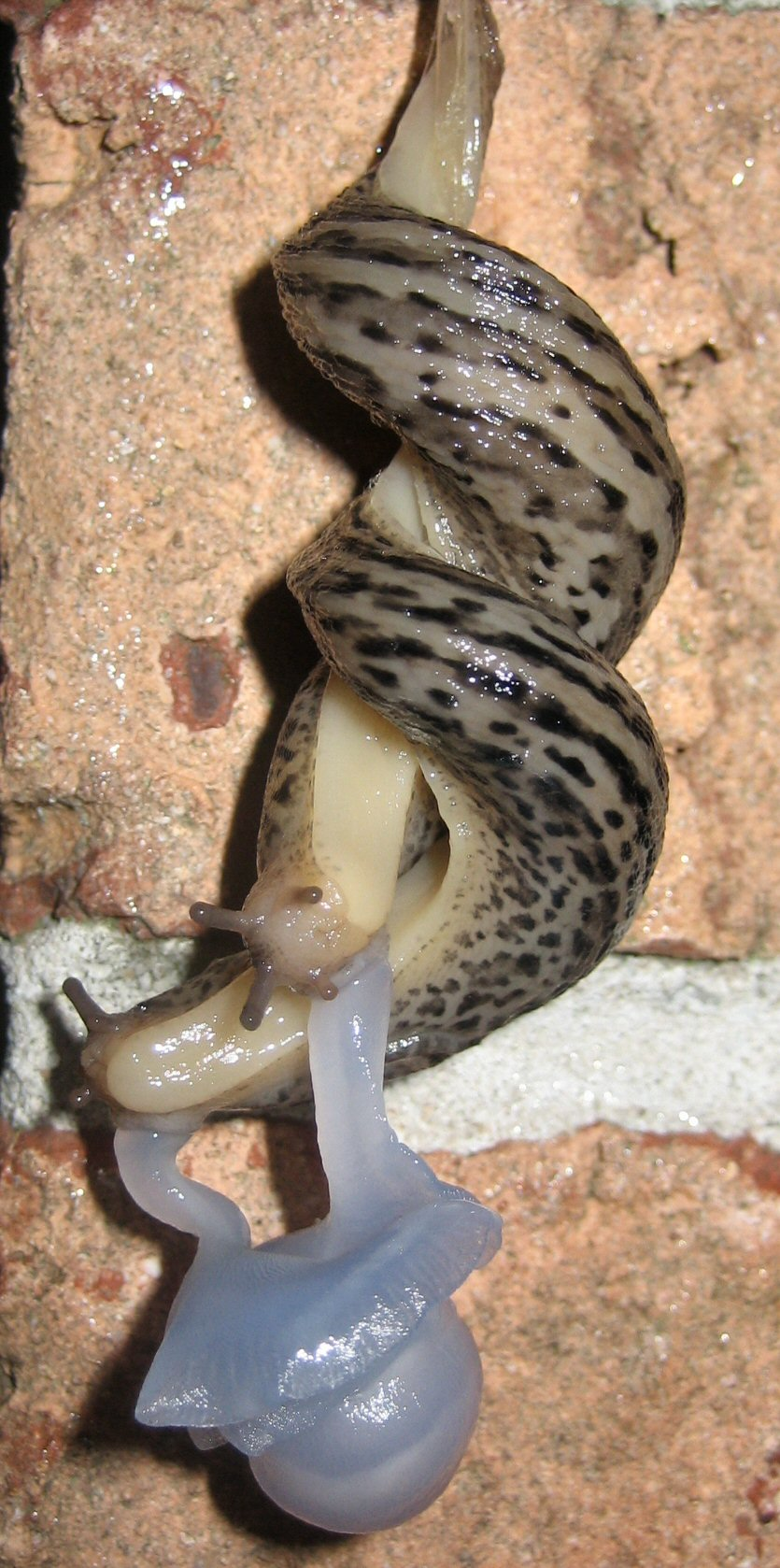 Slug mating